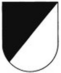 I Cuerpo de Ejército